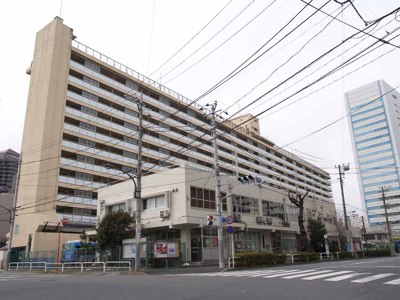 Office of Toei Bus Shinagawa dept.（東京都交通局品川自動車営業所）